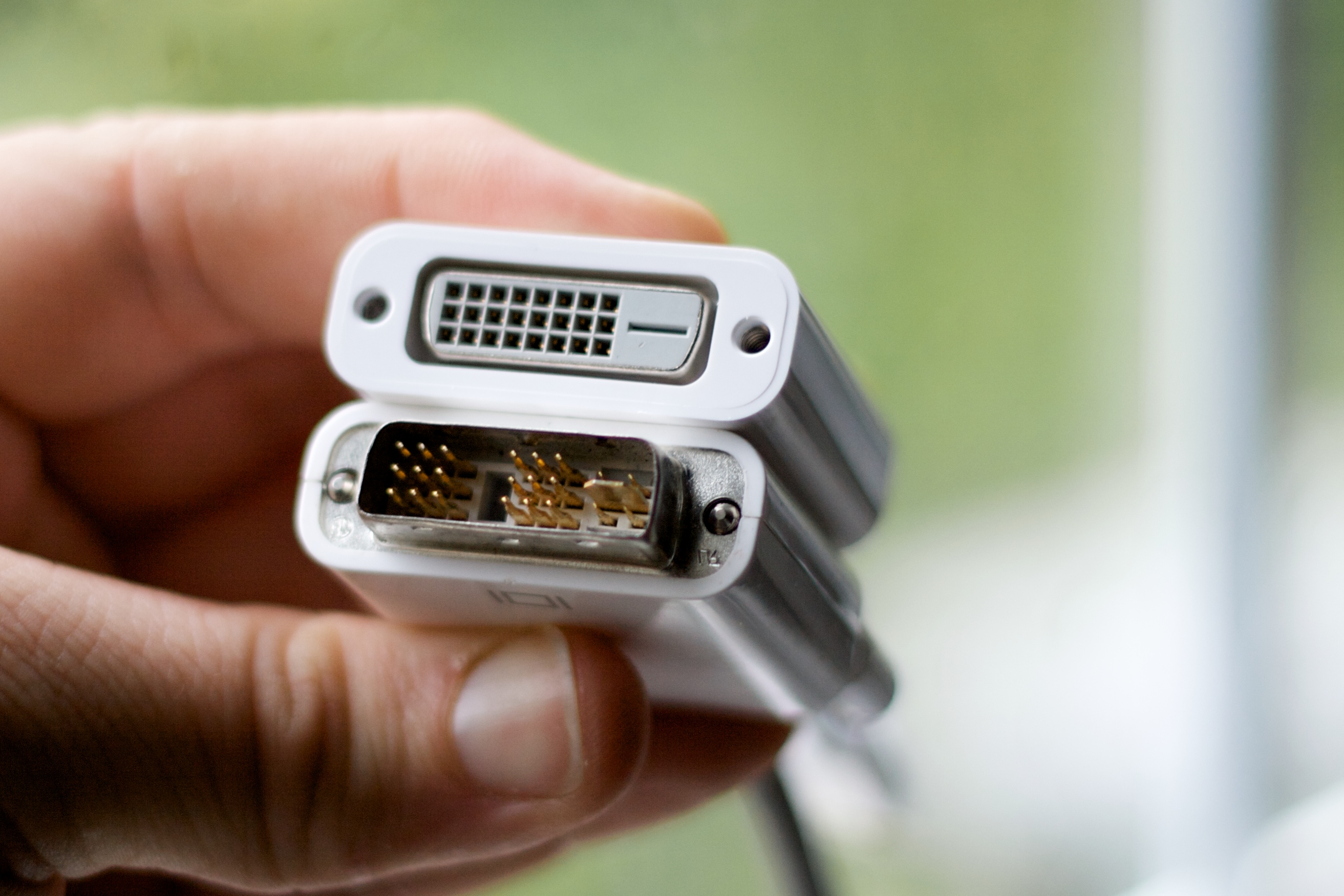 UPDATE: See wolrahnaes comment for an explanation to this frustration. Original Complaint Apple's Mini DisplayPort to DVI adapter is a "DVI-D Dual Link". Their other adapter DVI to video (s-video & composite, which I use all the time) is a "DVI-I Single Link". The two connectors are incompatible with each other because there's 4 pins on the DVI-I Single link that can't plug into the DVI-D.... very frustrating! DVI-I is Digital and Analog, DVI-D is Digital only. I think the reason Apple made the adapter DVI-D (Digital only) is so that they could sell more Mini DisplayPort to VGA adapters. Shame on Apple. got my DVI info here: As requested, in Layman Apple: Apple made their new DVI adapter incompatible with several of their existing adapters, requiring you to buy *another* adapter (VGA) that can then be converted again to the signal you need, such as S-Video or Composite Video.